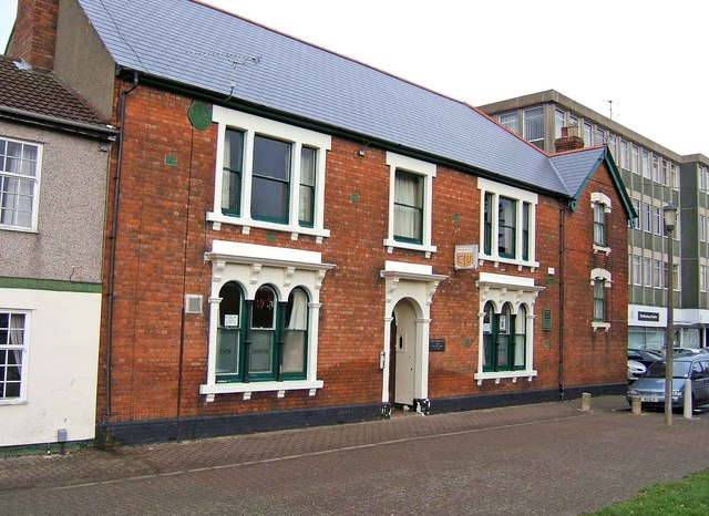 Even Swindon Club, 44 Percy Street, Rodbourne The signs say "Even Swindon Club" but the full title is, or maybe was, "Even Swindon Working Men's Club & Institute Ltd". So in spirit, if not still in name, this is another of Swindon's many clubs which originated as working men's clubs. The CIU sign indicates that it is affiliated to the national body for working men's clubs. This particular club appears to still be well supported by its members. There is another club in the parallel street of Morris Street 1081418 The club's name derives from the fact that this part of Swindon, when building started in the 19th century, was known as Even Swindon. That name still strangely appears on maps, but today the area is firmly known as Rodbourne. Indeed if you asked a Swindonian where Even Swindon was, you would probably get a blank look, unless they were very elderly. But the name lingers on in a few institutions, such as this club and, of course, on maps.